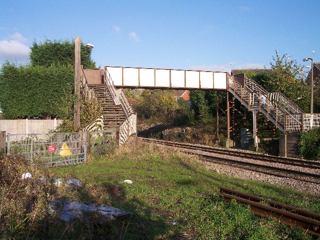 Site of Fernhill Heath Station. Now all that remains is the footbridge over the Worcester to Birmingham line. A prime candidate for renewal as this village continues to expand to become a dormer town and eventually a suburb of Worcester.